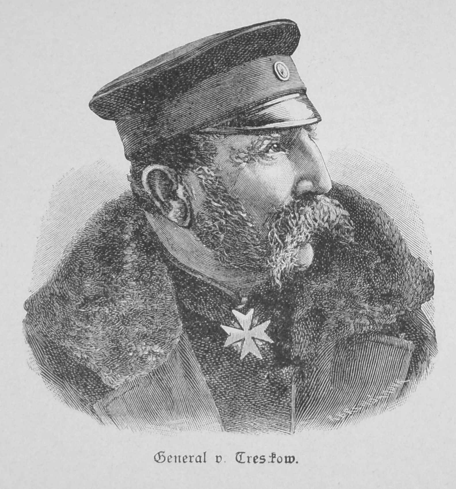 general von Tresckow